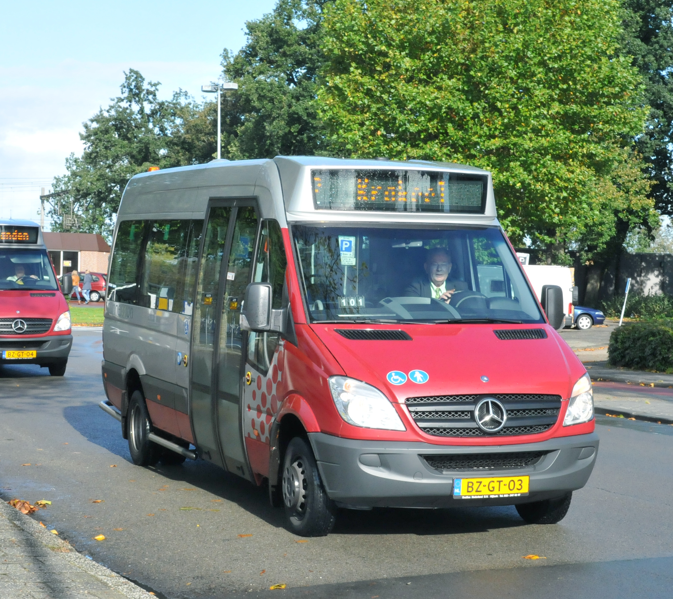 Mercedes-Benz Sprinter City 35 minibus (reg. BZ-GT-03) in Hoogeveen, Netherlands. Built 2011, Connexxion Taxiservices operator.